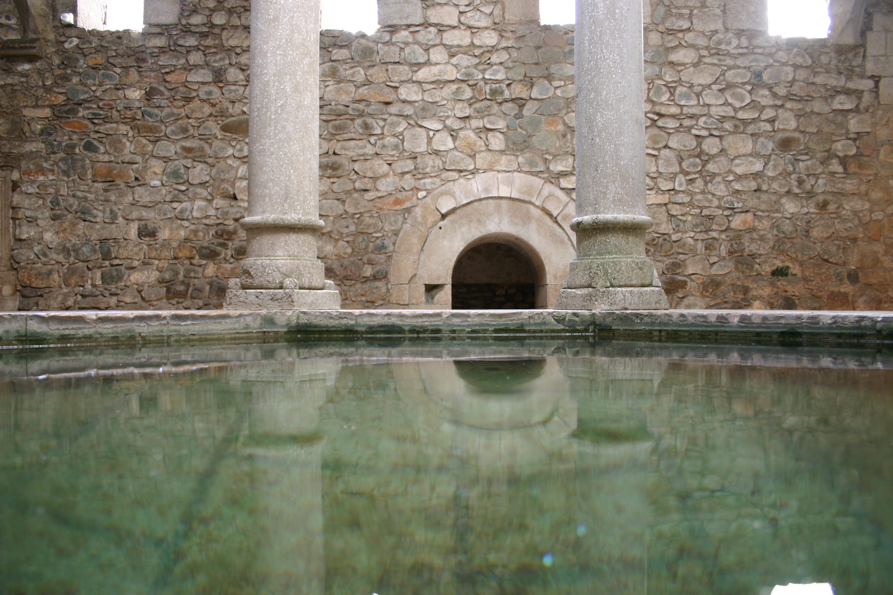 Apodyterium (Dressing room). Arab baths in Girona, Catalonia (Spain). (XIII Century)